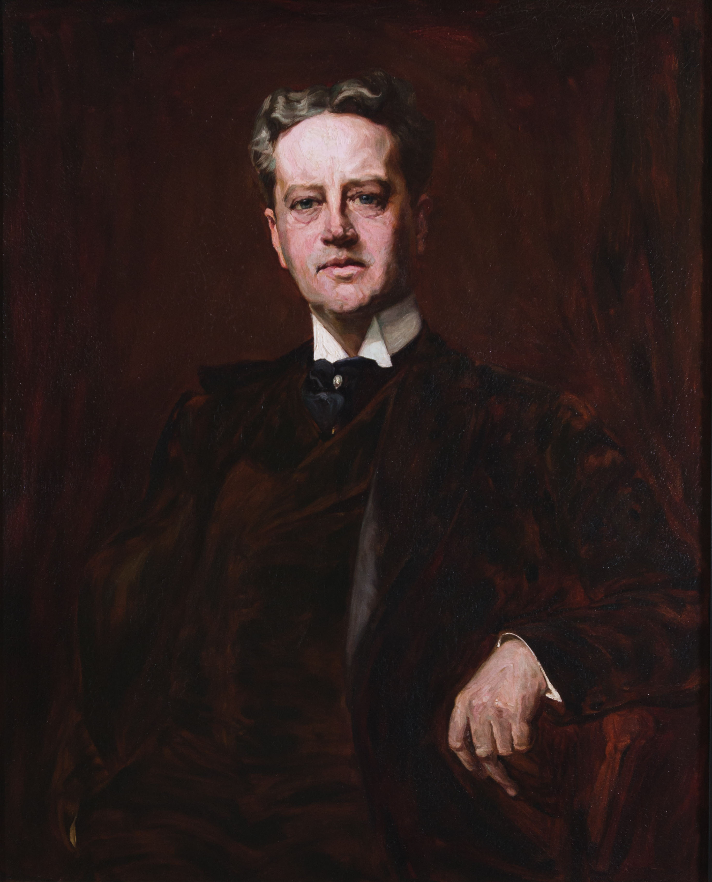 Portrait of Mr. William K. Vanderbilt (1849-1920) (American, 1920) by F.W. Wright (b.1880) after the original painted by Richard Hall (b. 1860) in Paris, 1901. The subject is depicted at bust-length wearing a jacket, a white shirt with wing collar, and a pearl tie pin